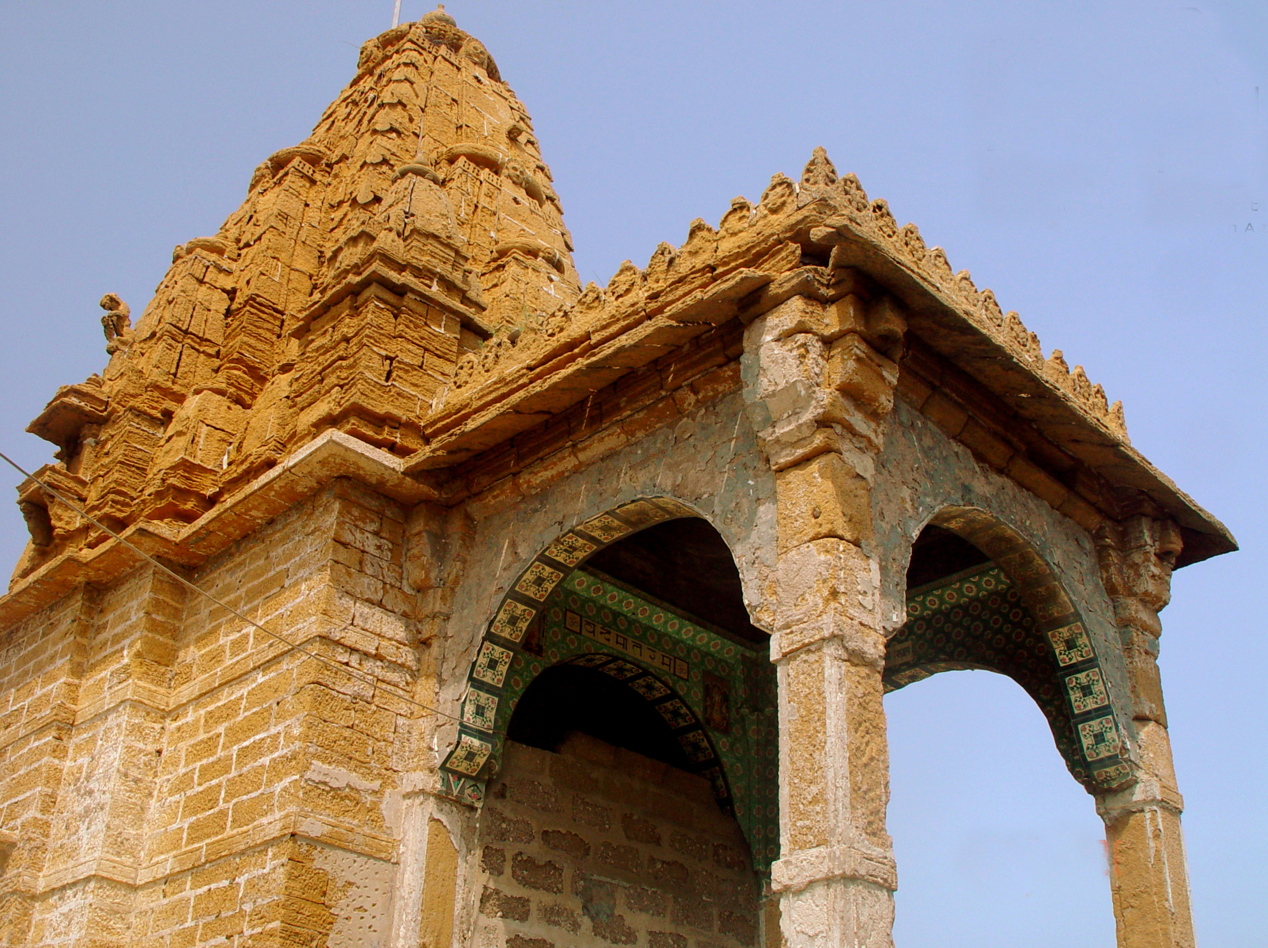 Shri Varun Dev Mandir (Urdu: ورن دیو مندر) is a Hindu temple located in Manora Island in Karachi, Sindh, Pakistan. The temple is devoted to Varuna, the deity that represents water in Hinduism This is a photo of a monument in Pakistan identified as the SD-P-102